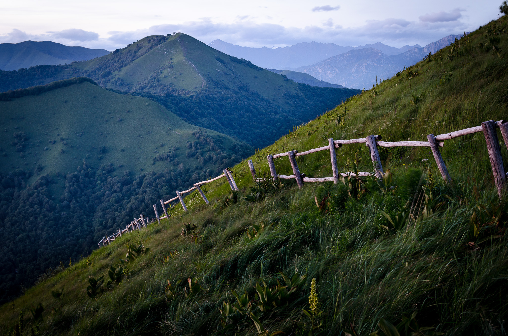 500px provided description: Monte Palanzone is a mountain situated in the province of Como, Lombardy, northern Italy. The peak reaches 1,436 metres in altitude. [#mountains ,#nature ,#night ,#walk ,#fence ,#peace ,#relax ,#hiking ,#meadow ,#Italy ,#Como ,#Albavilla ,#Erba ,#Brianza ,#Monte Bollettone ,#Monte Palanzone]